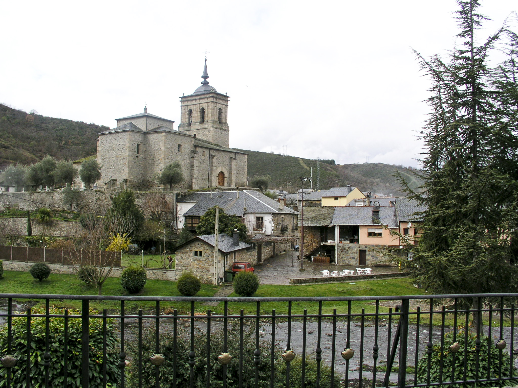 Molinaseca, Province of León, Spain. View